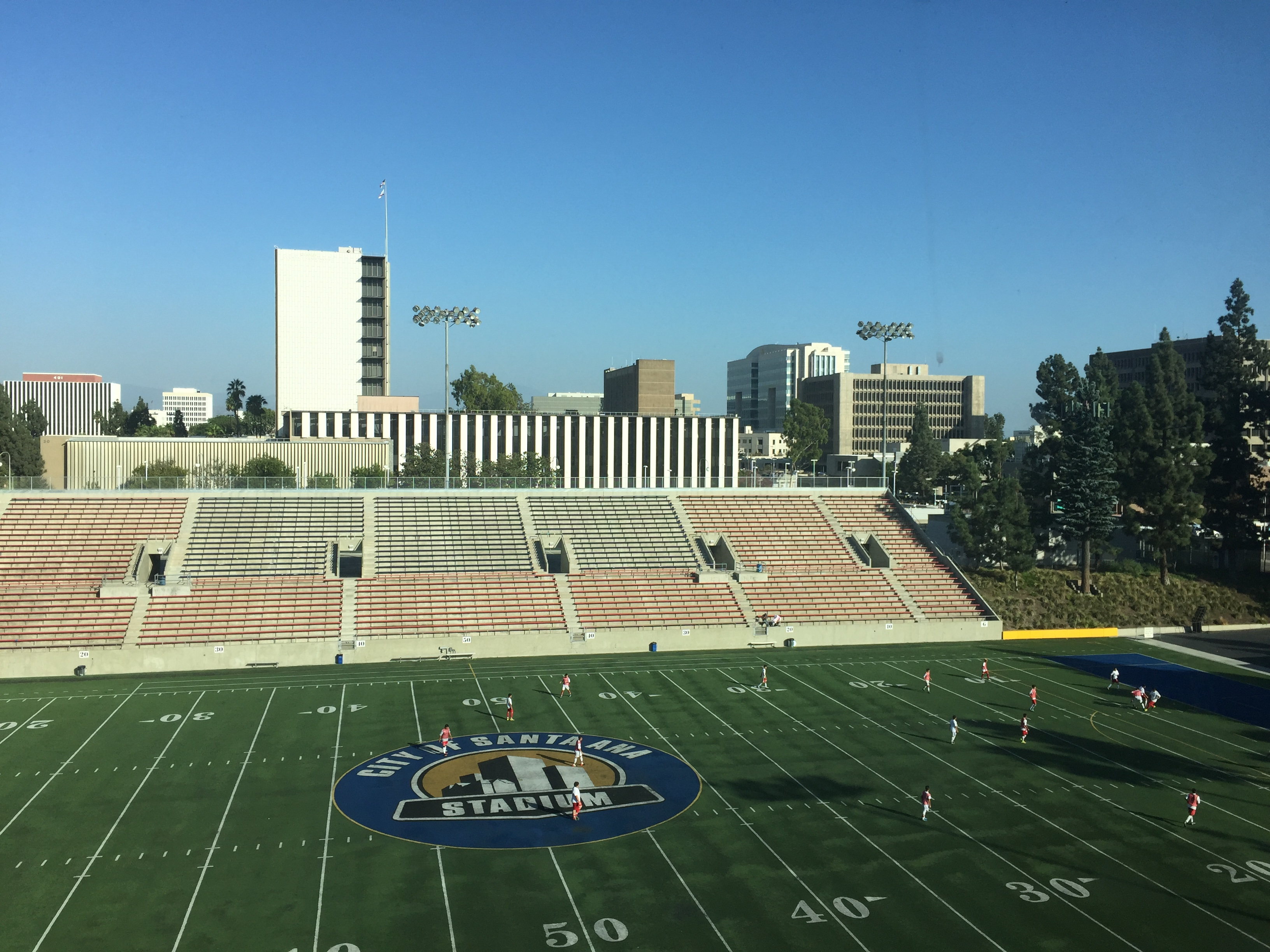 View of Downtown Santa Ana, Civic Center from the press box at Santa Ana Stadium